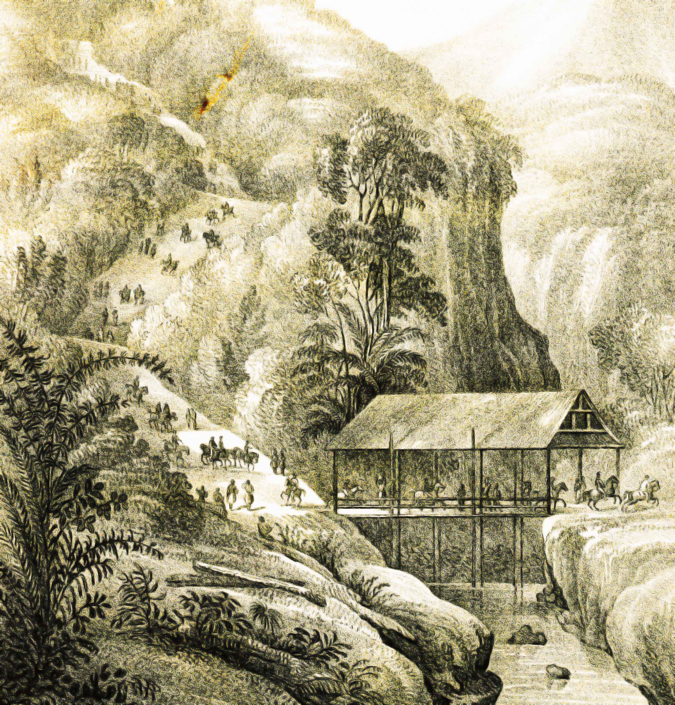 Nederlandse troepen op Celebes